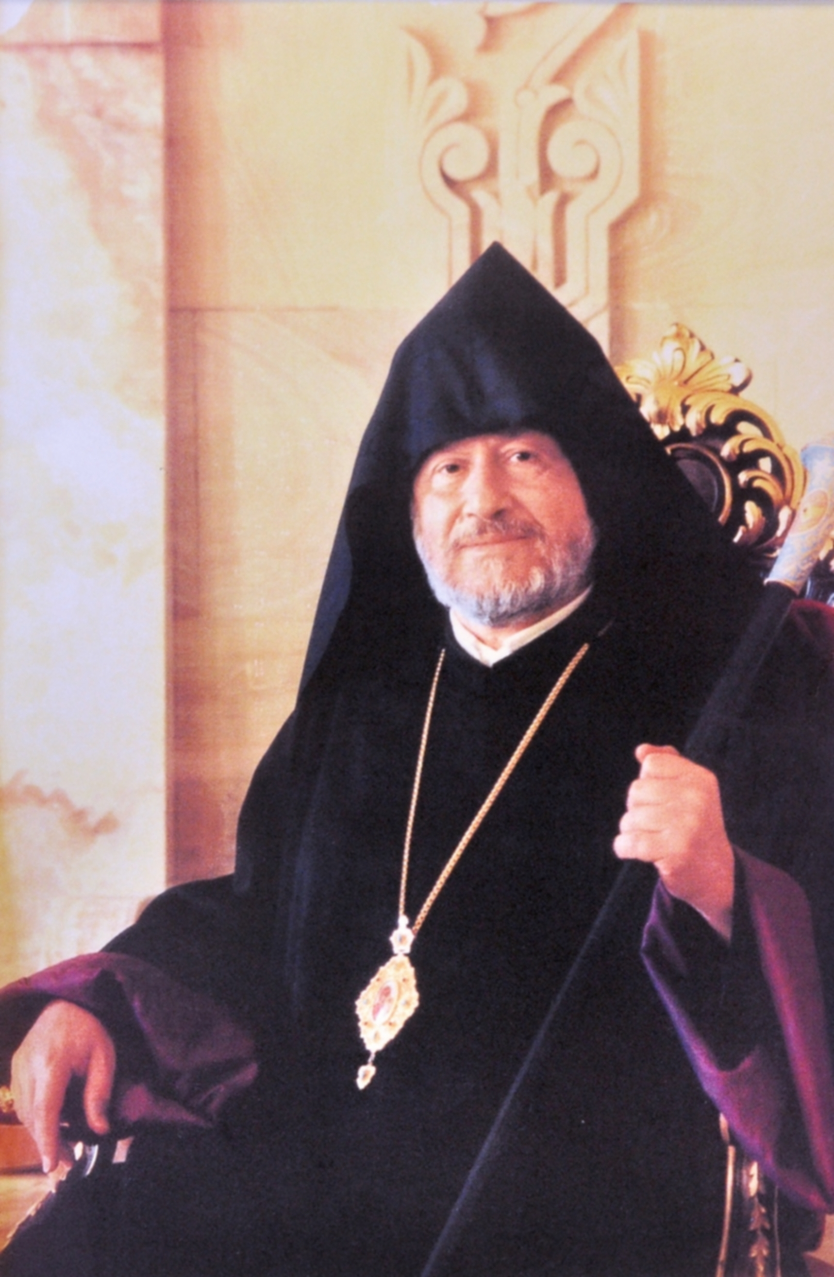 Nerses Pozapalian (1937 – June 27, 2009) was one of the senior monks of the Armenian Apostolic Holy Church.